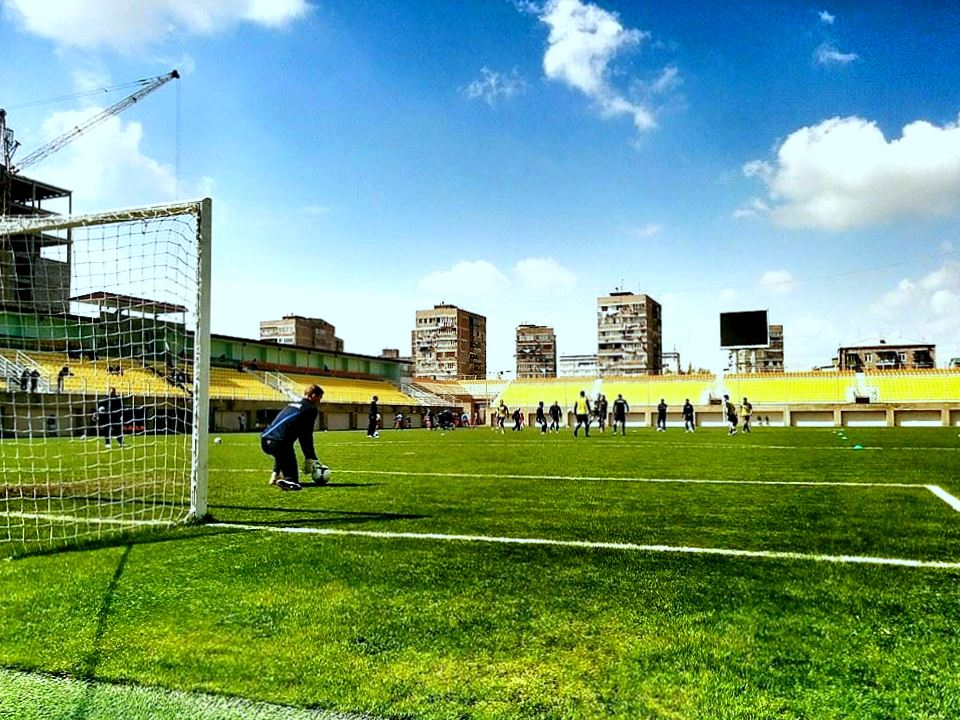 Mika stadium 12 April 2015, Yerevan